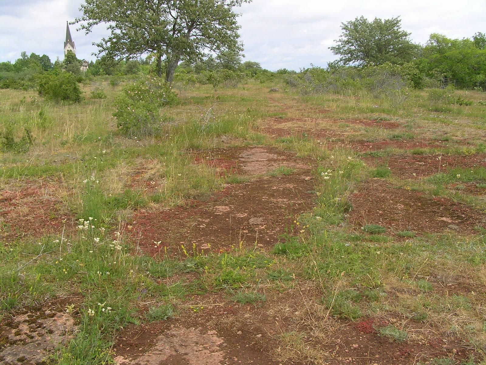 Österplana hed, Kinnekulle, Västergötland, Sweden. Alvar vegetation with exposed limestone: Filipendula vulgaris, Galium verum, Sedum album, Rosa sp. etc.